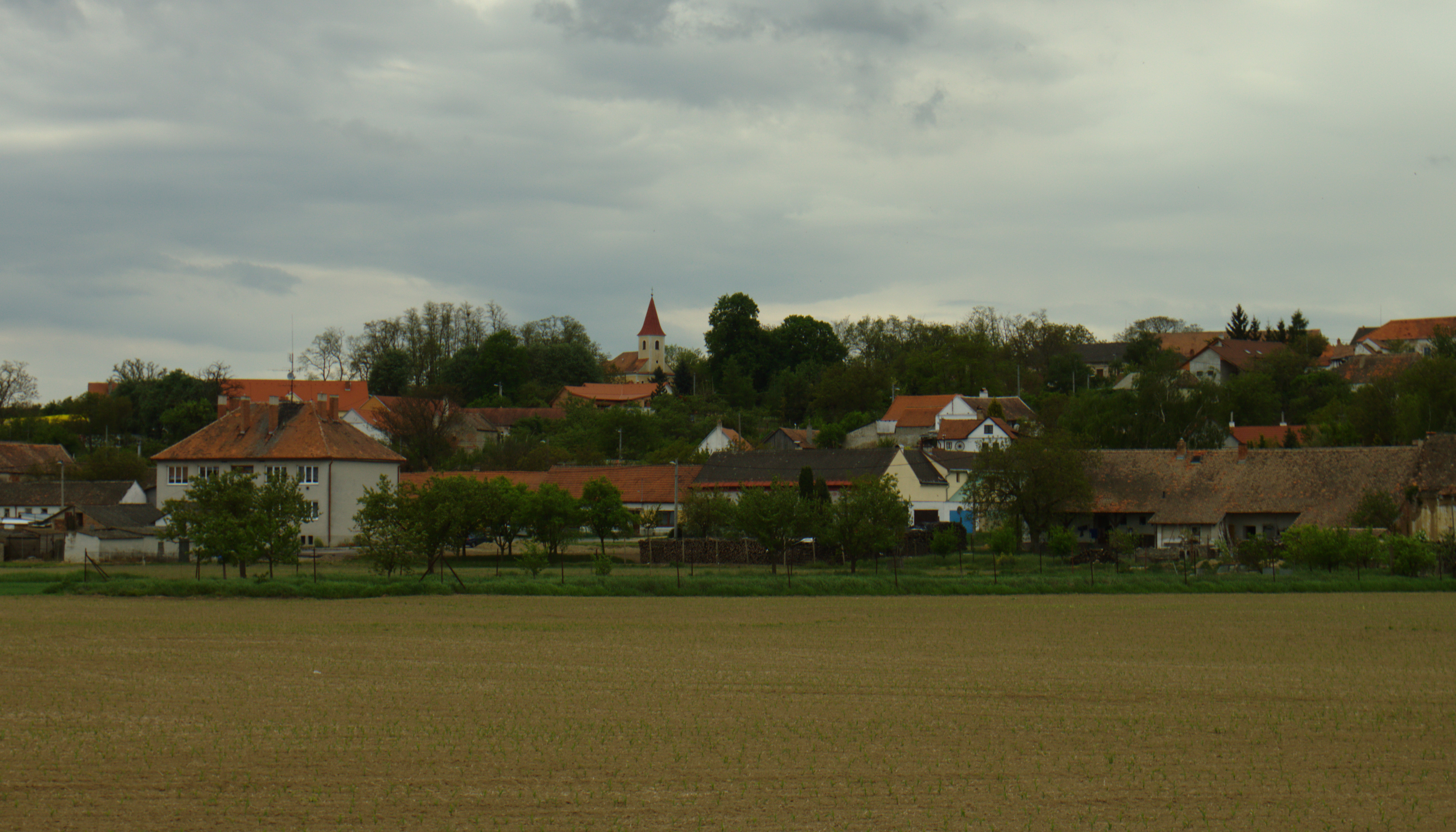 View of the village of Kyjovice, South Moravian Region, CZ